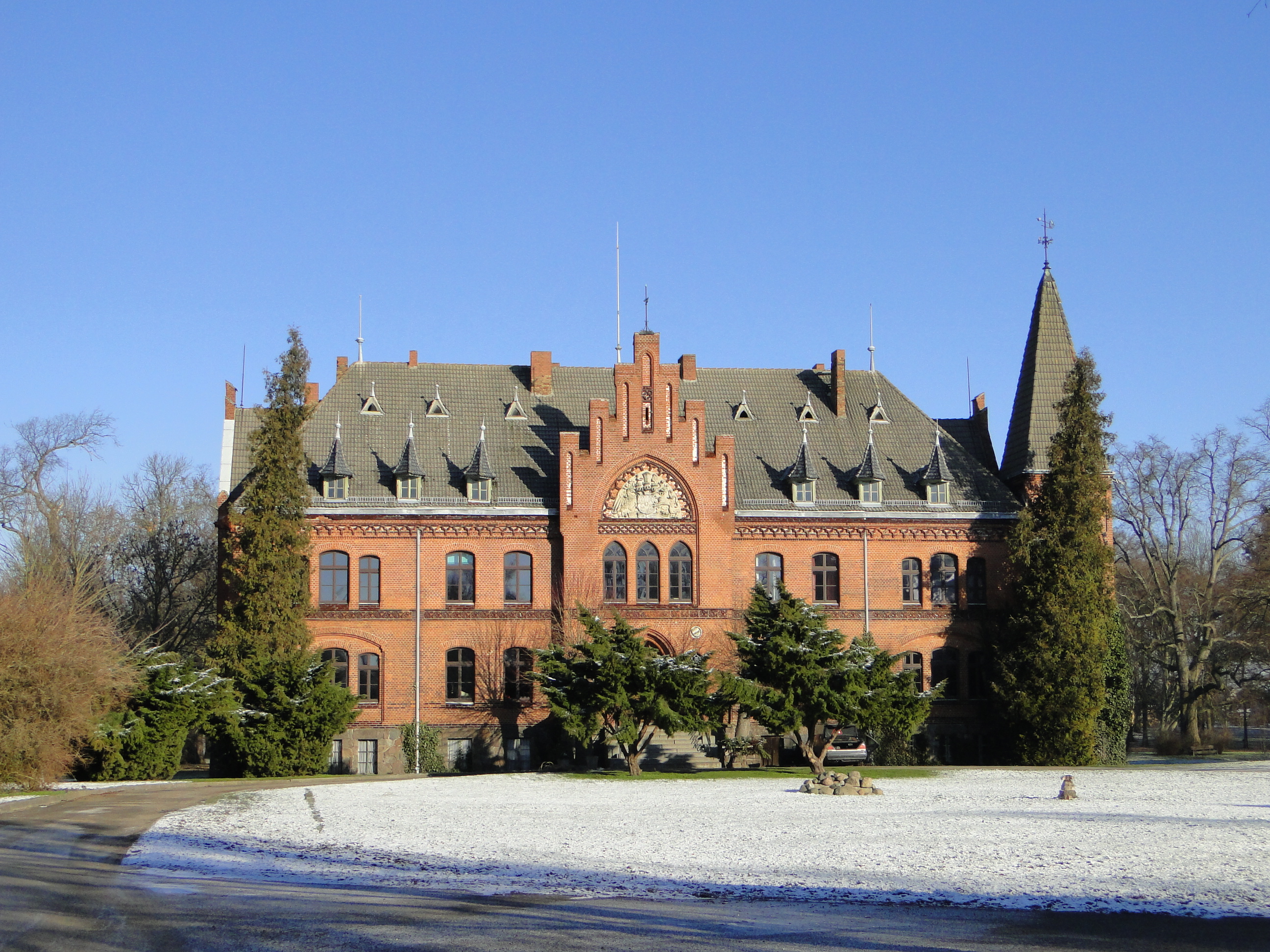 Manor house in Beseritz, district Mecklenburgische Seenplatte, Mecklenburg-Vorpommern, Germany